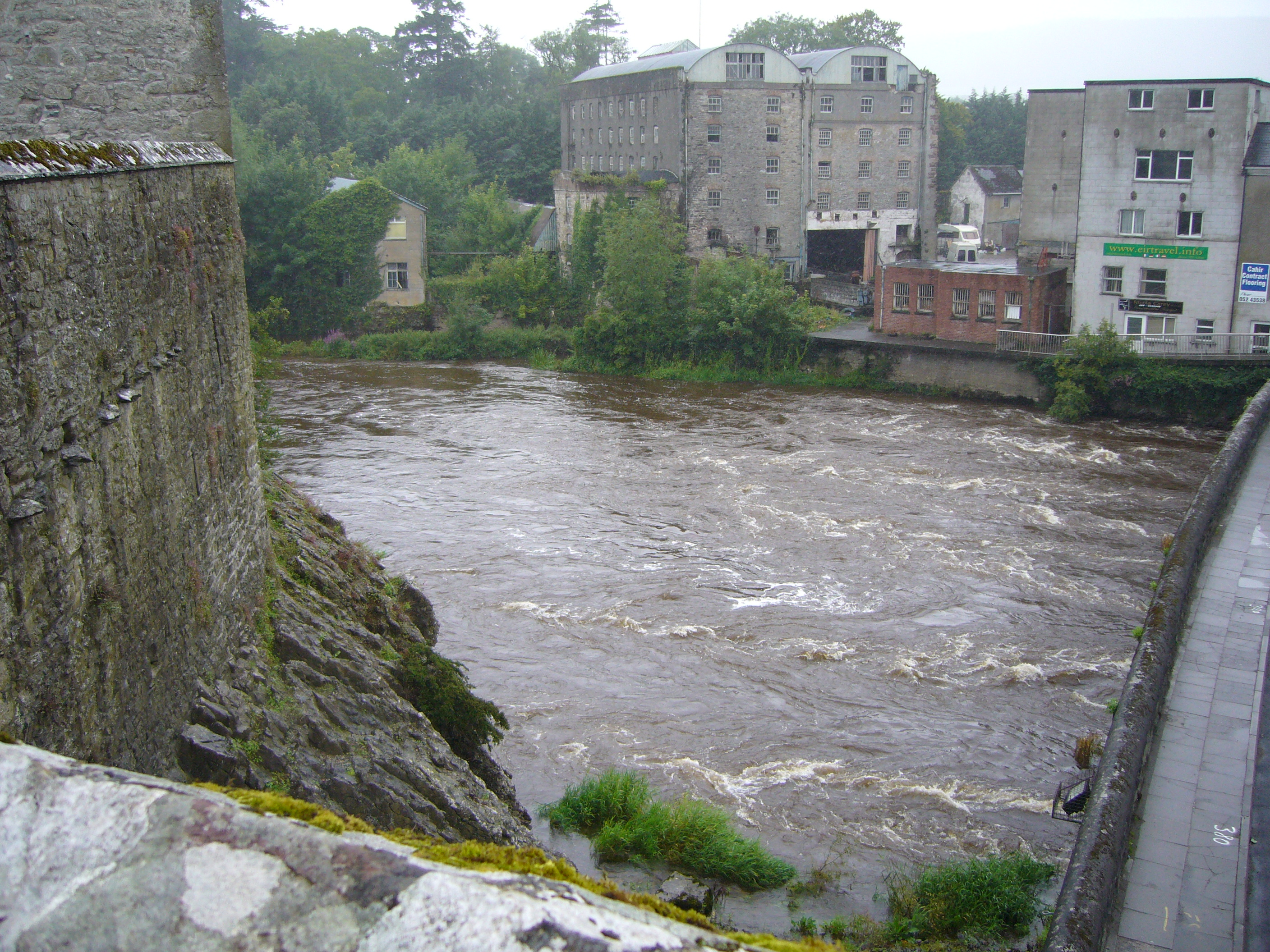 River Suir viewed from Cahir Castle